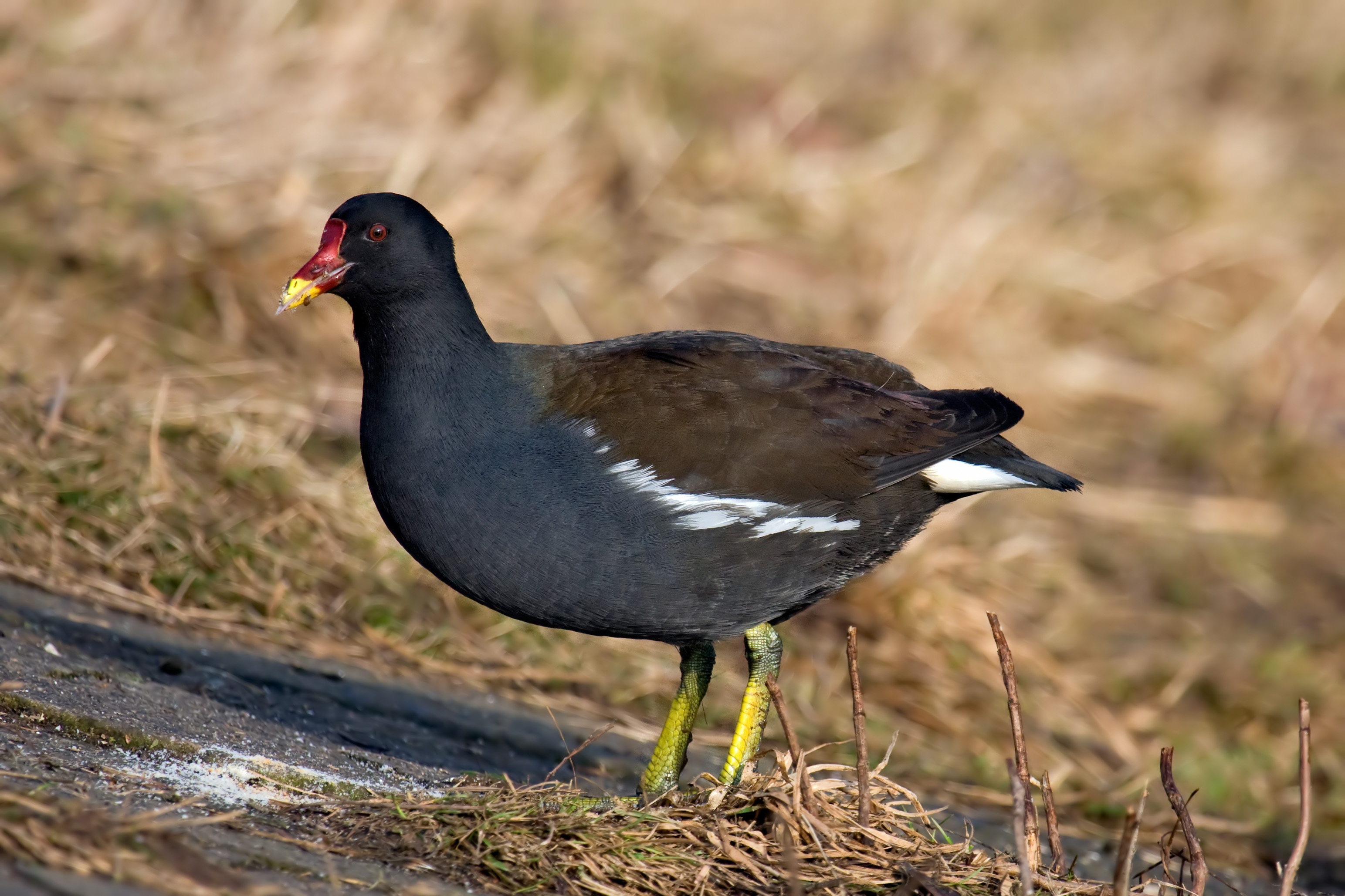 Common Moorhen